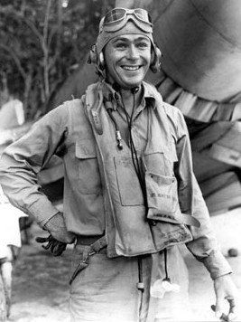 John F. Bolt, 1943: First Lt.. John F. Bolt, seen here at in the Pacific Theater in 1943, achieved six confirmed kills during World War II and another six during the Korean War. Bolt was the first Marine ace of both wars and one of only seven American pilots, as well as the only Naval aviator, to achieve that distinction. Photo courtesy of Tom O'Hara, curator of the Flying Leatherneck Historical Foundation and Aviation Museum